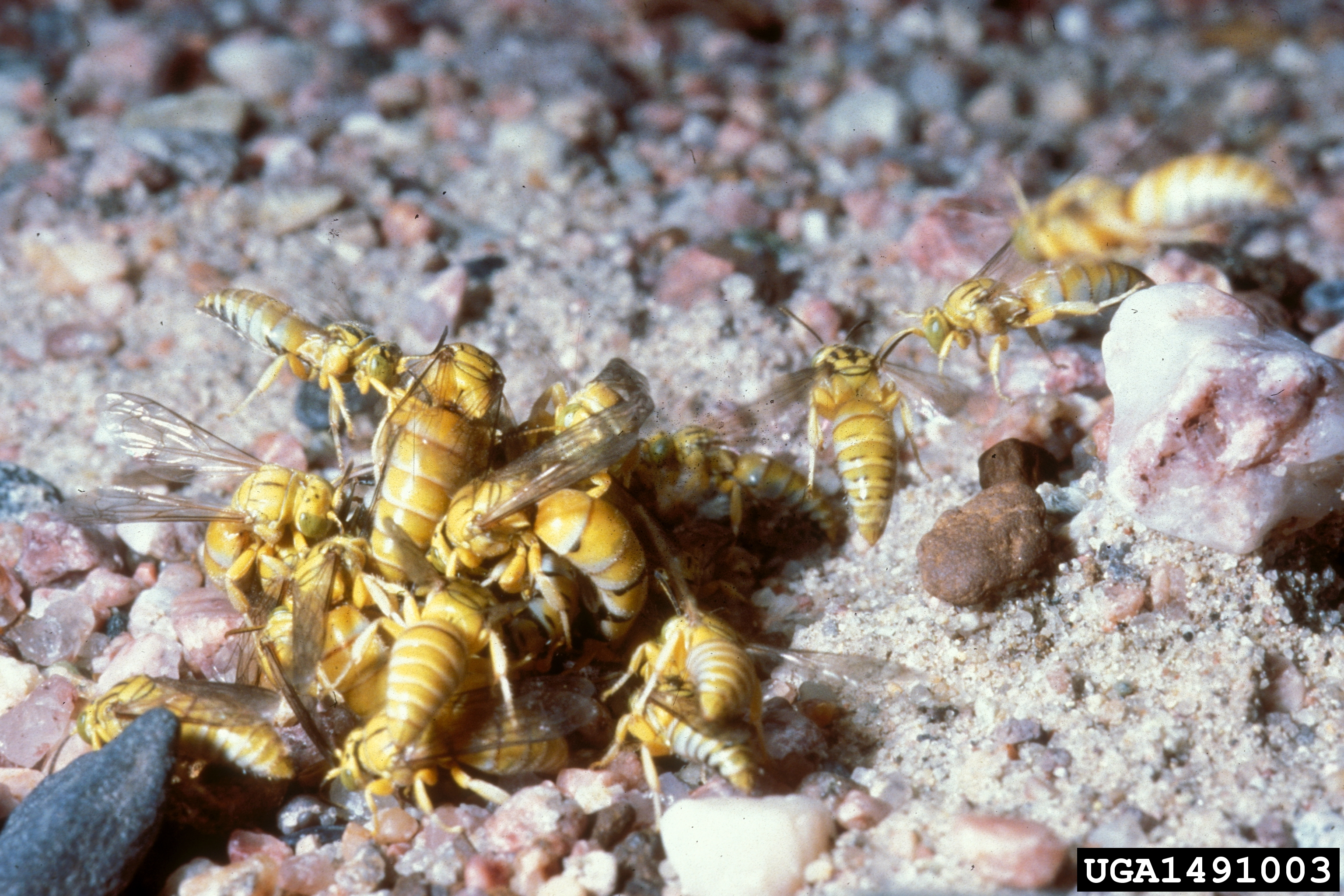 Sphecid wasp Bembecinus quinquespinosus (Say, 1823) - mating ball